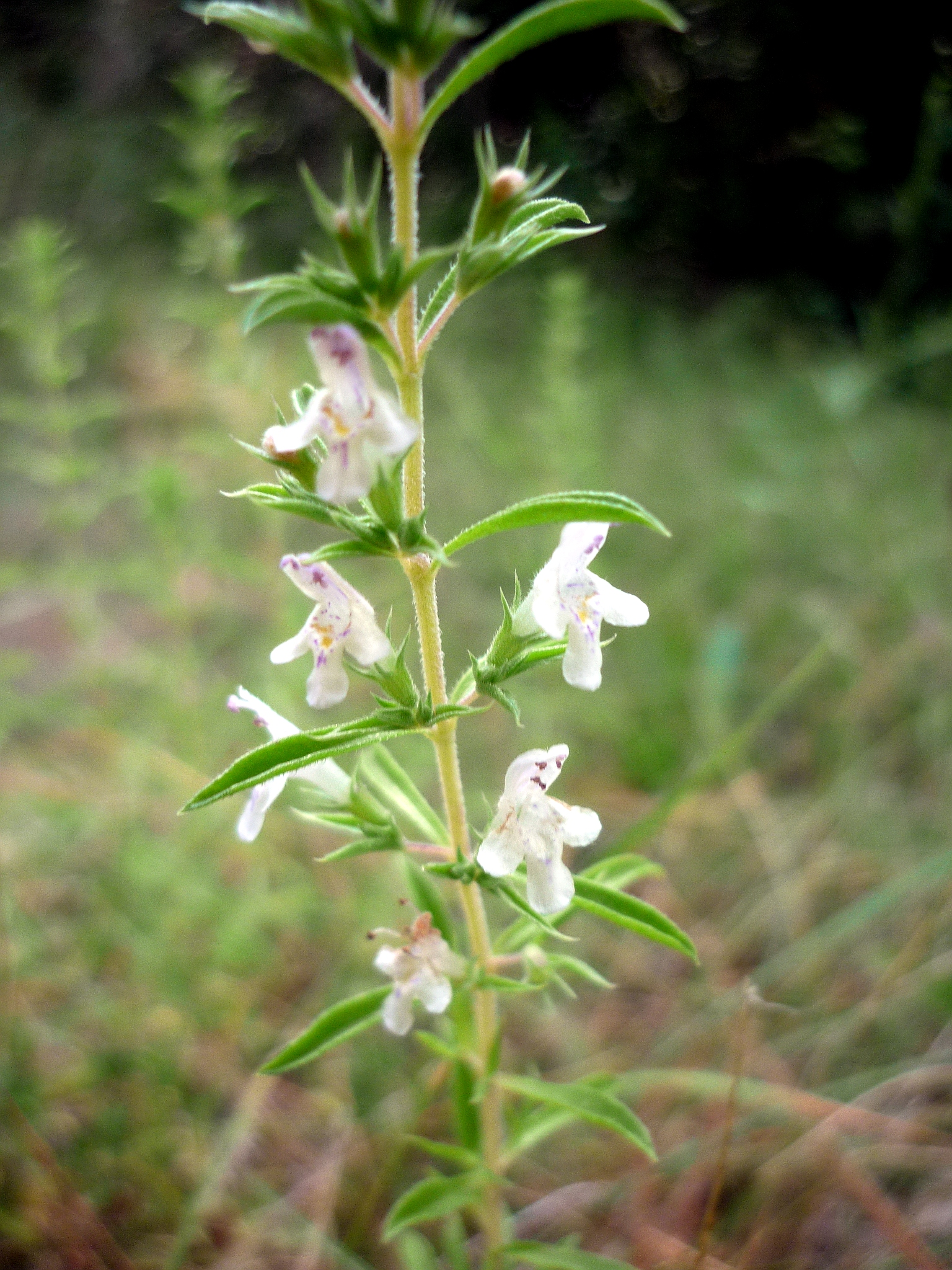 Satureja montana. In Torà (Segarra - Catalunya). To 560 m. altitude